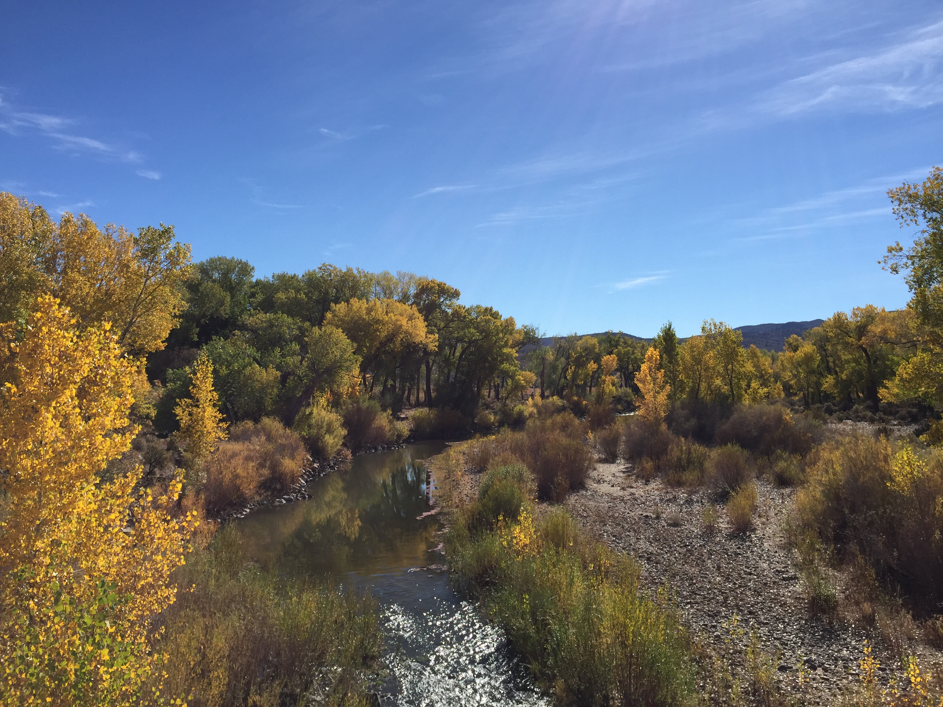 View south up the Carson River from Nevada State Route 822 (Dayton Valley Road) in Dayton, Nevada